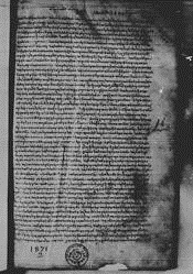 Minuscule 33 (Gregory-Aland), manuscript of the New Testament; 9th century